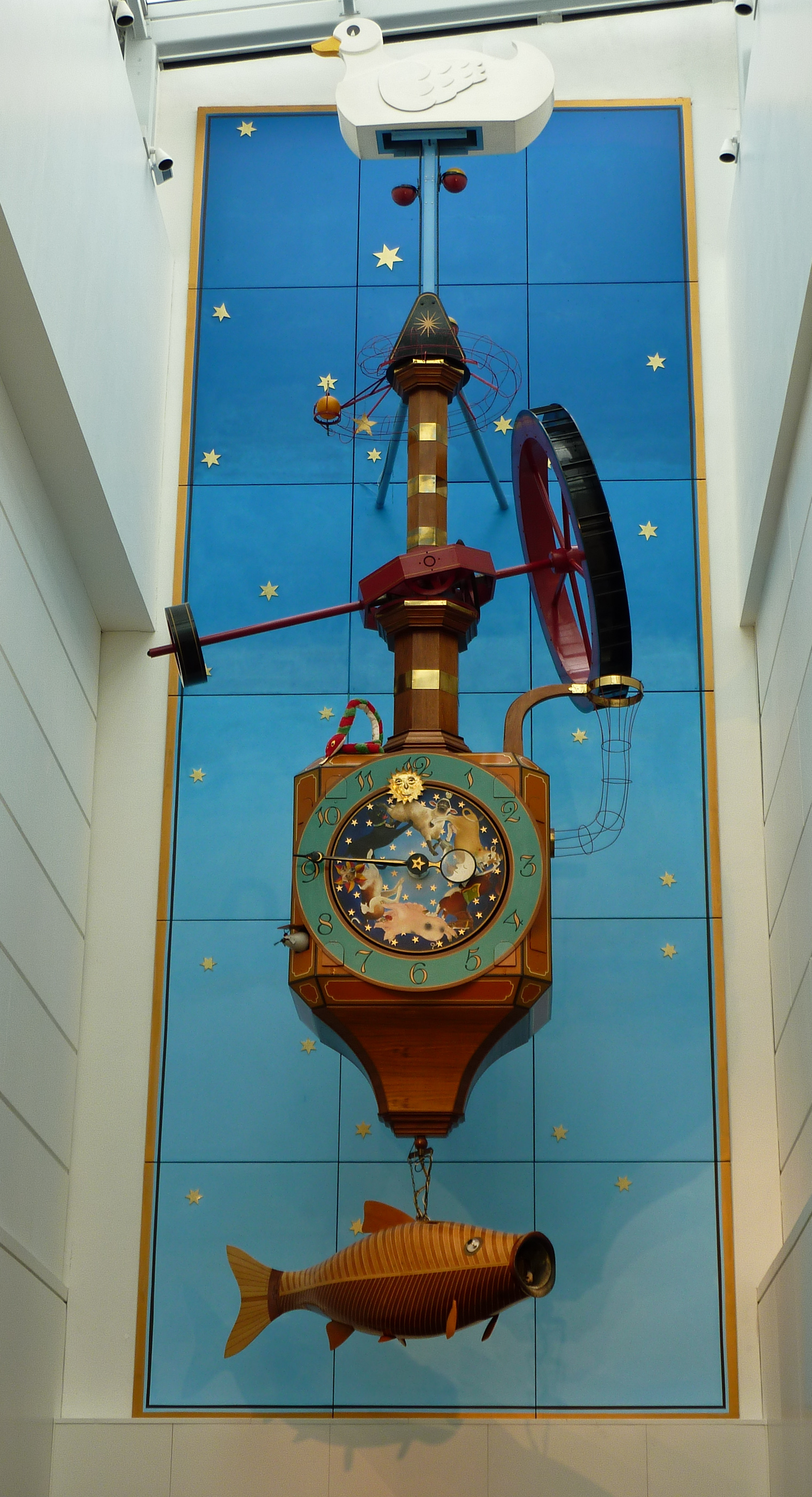 The Wishing Fish Clock in the Regent Shopping Arcade, Cheltenham, may be the world's tallest mechanical clock. The vertical distance from the duck to the fish is 14 metres. It weighs 3 tons. On the hour the fish that is suspended under the clock revolves and blows out bubbles.